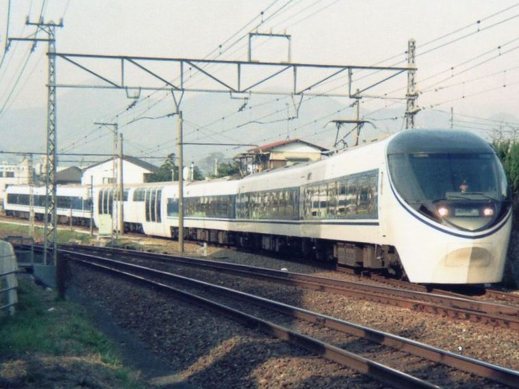 The JR Central 371 series EMU on an Asagiri limited express service at Shin-Matsuda Station